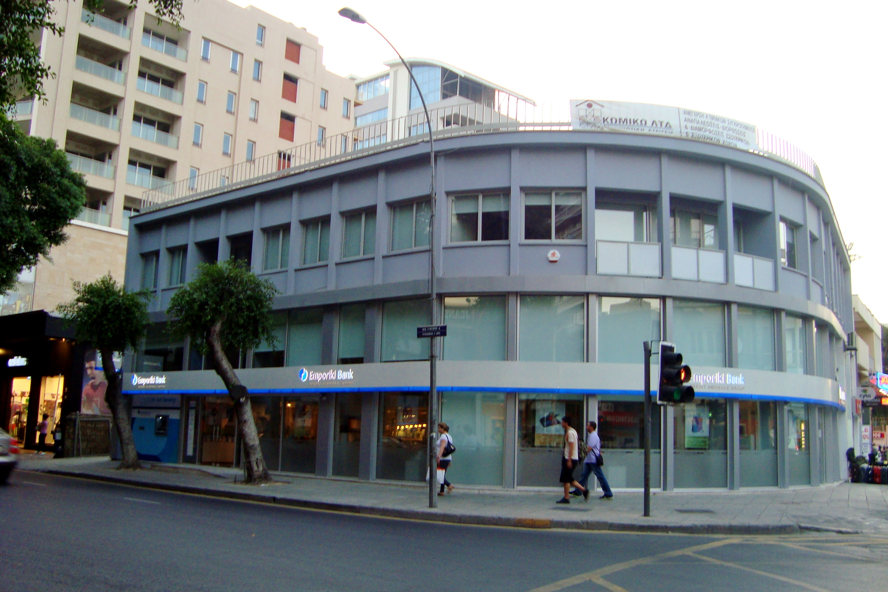 Emporiki Bank offices during the afternoon in Nicosia Makariou Avenue Republic of Cyprus